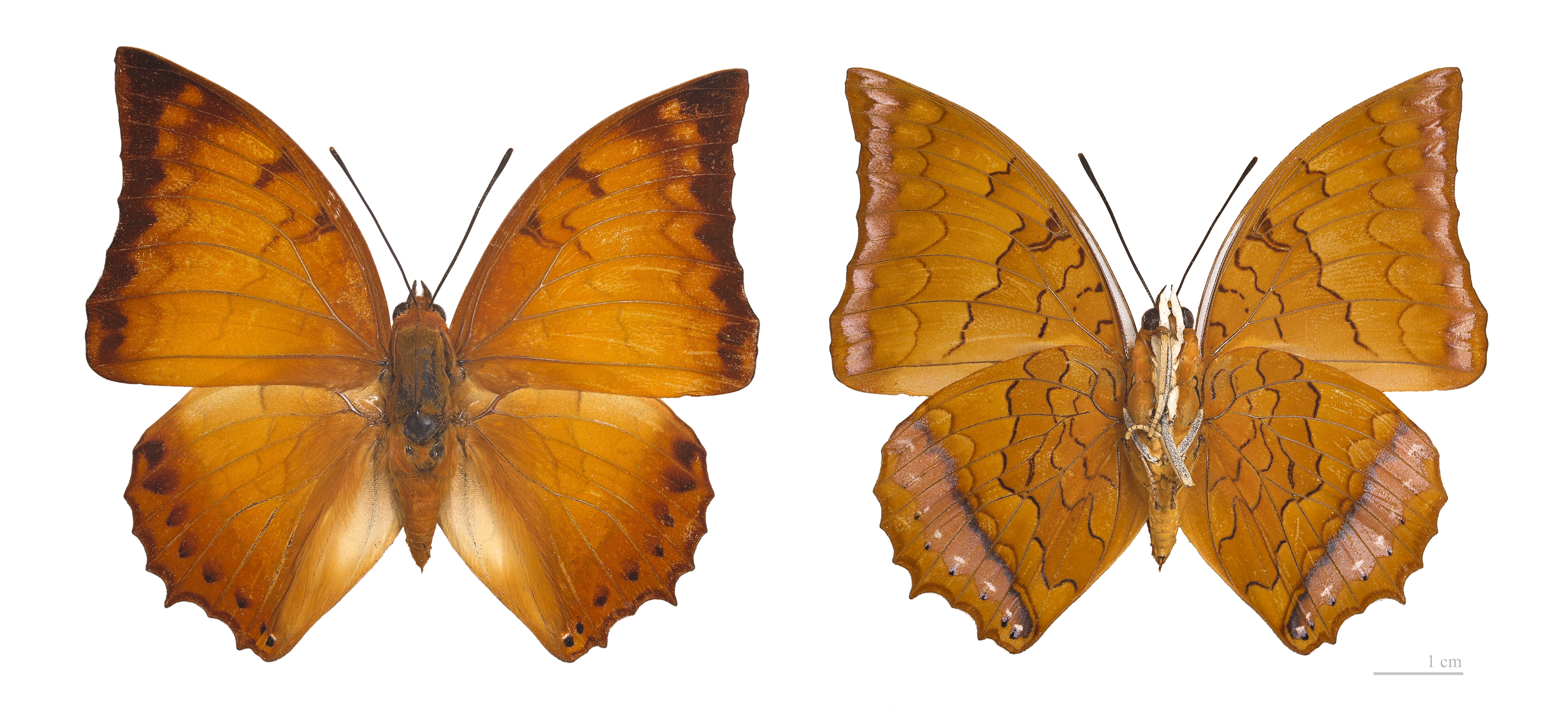 ♂ - - Two views of same specimen Locality: Cameron Highlands, Malaysia